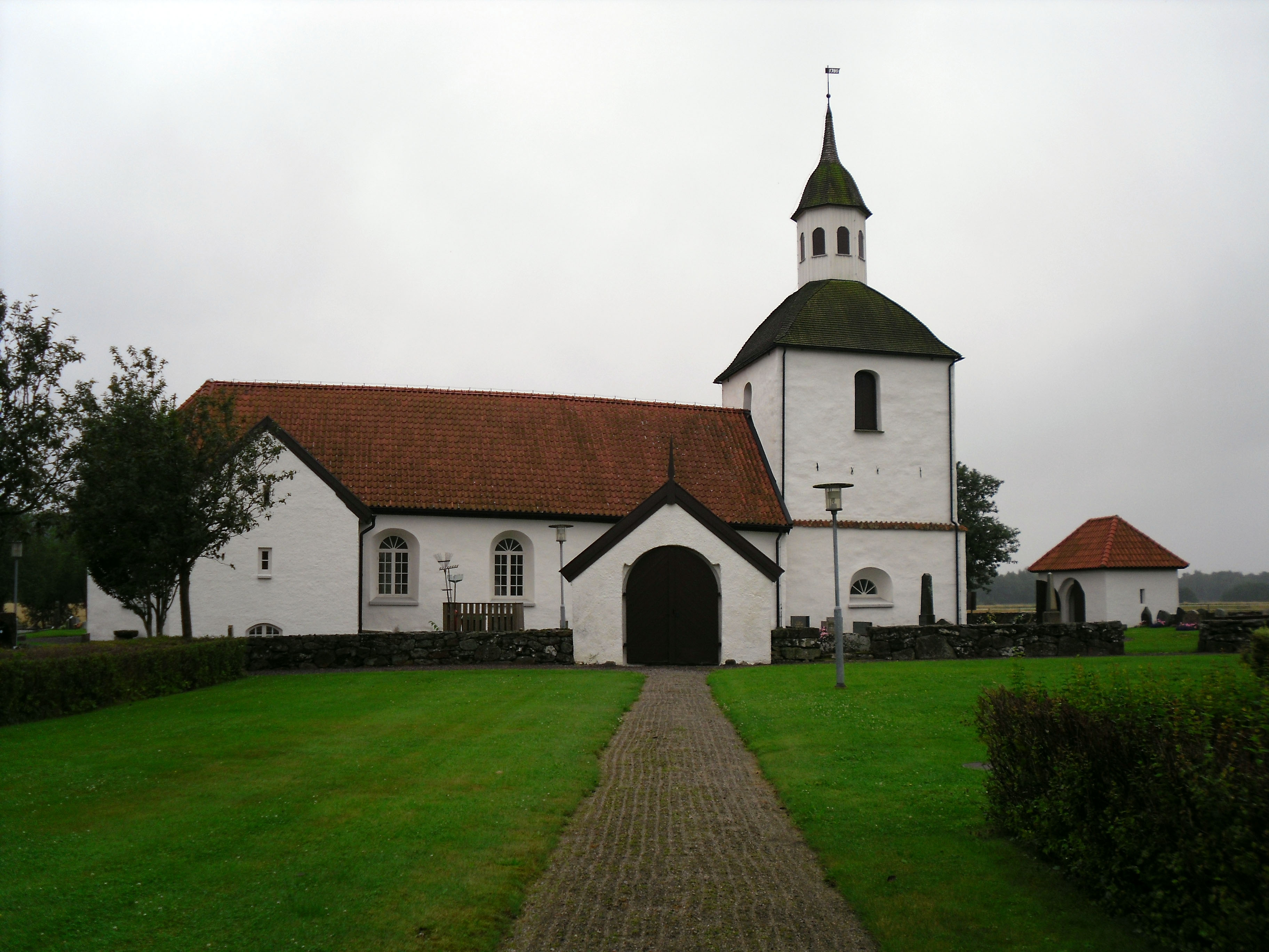 Landa Church, Halland, Sweden